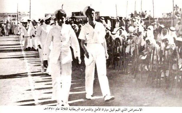 British Battleships in Friendly Match Against Alahli